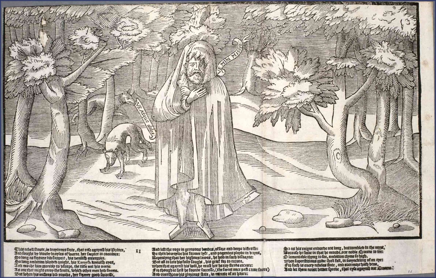 A plate originally from The Image of Irelande, by John Derrick, published in 1581. This image was taken from this Edinburgh University Library website - [1], with the description - "Rorie Oge, a wild kerne and a defeated rebel, in the forest with wolves for company".